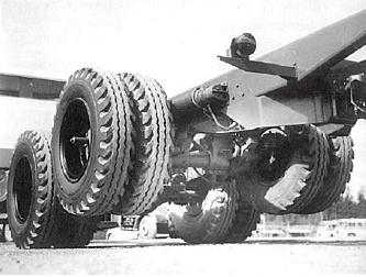 Vanaja lift axle system that allows lifting also when the vehicle is full loaded.